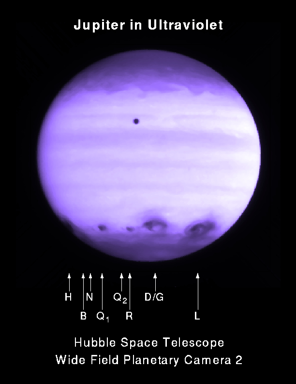 Ultraviolet image of Jupiter taken by the Wide Field Camera of the Hubble Space Telescope. The image shows Jupiter's atmosphere at a wavelength of 2550 Angstroms after many impacts by fragments of comet Shoemaker-Levy 9. The most recent impactor is fragment R which is below the center of Jupiter (third dark spot from the right). This photo was taken 3:55 EDT on July 21, about 2.5 hours after R's impact. A large dark patch from the impact of fragment H is visible rising on the morning (left) side. Proceding to the right, other dark spots were caused by impacts of fragments Q1, R, D and G (now one large spot), and L, with L covering the largest area of any seen thus far. Small dark spots from B, N, and Q2 are visible with careful inspection of the image. The spots are very dark in the ultraviolet because a large quantity of dust is being deposited high in Jupiter's stratosphere, and the dust abosrbs sunlight. The dark circle on the upper half is the moon Io in front of Jupiter.